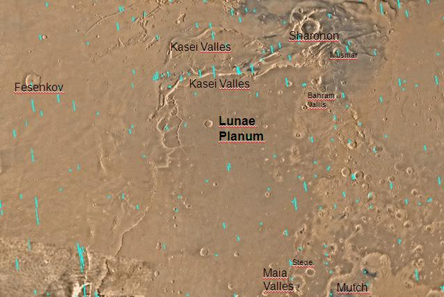 Map of Lunae Palus quadrangle with labels. The small, colored rectangles represent image footprints for the narrow angle camera on the Mars Global Surveyor. Some are about 1 mile wide, the otheers are about 2 miles wide.